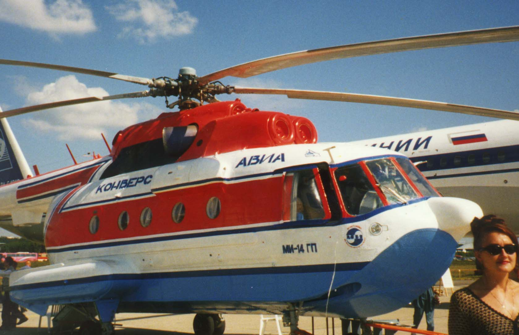 Helicopter Mil Mi-14GP